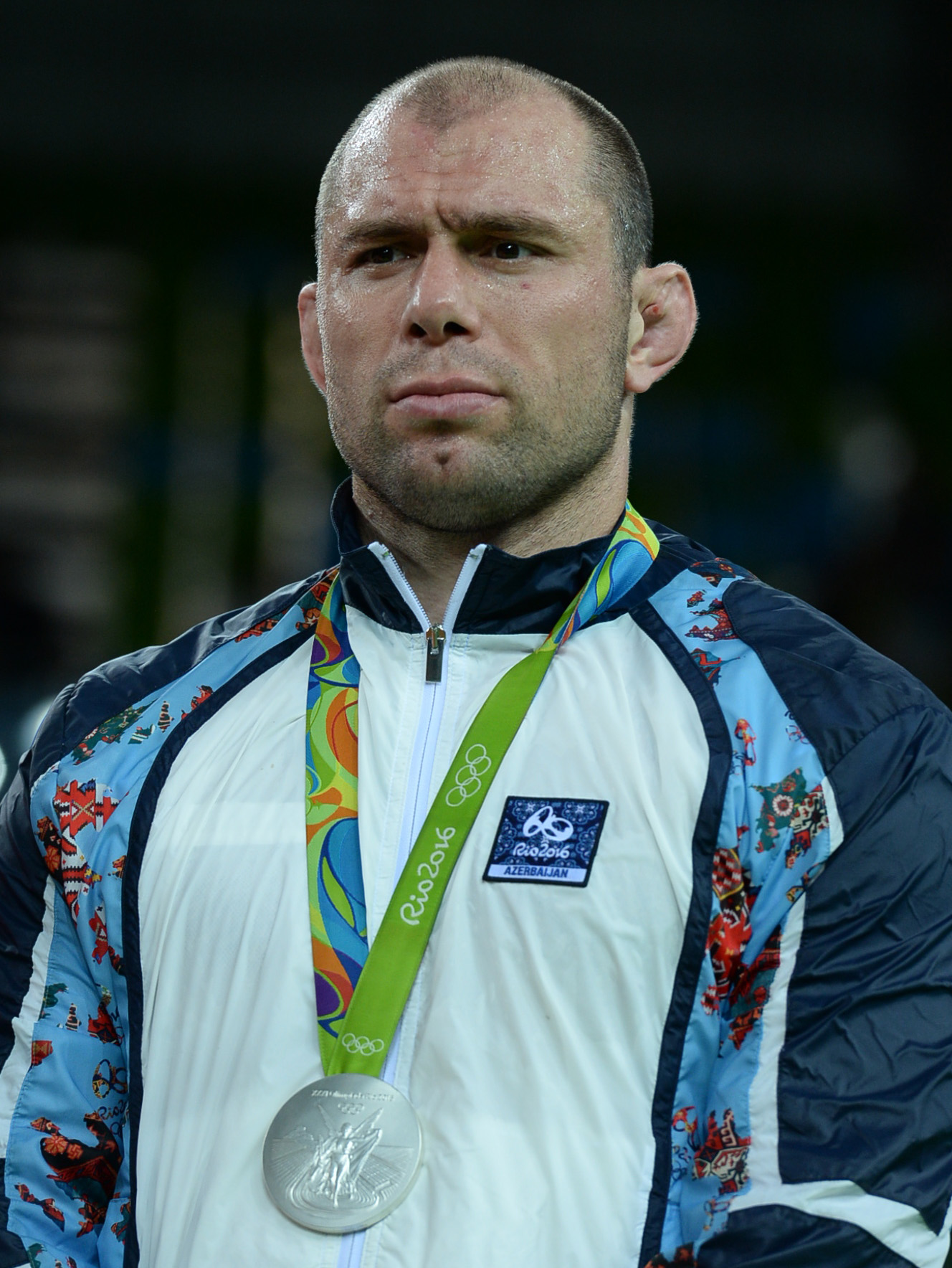 Khetag Gazyumov at the 2016 Summer Olympics awarding ceremony